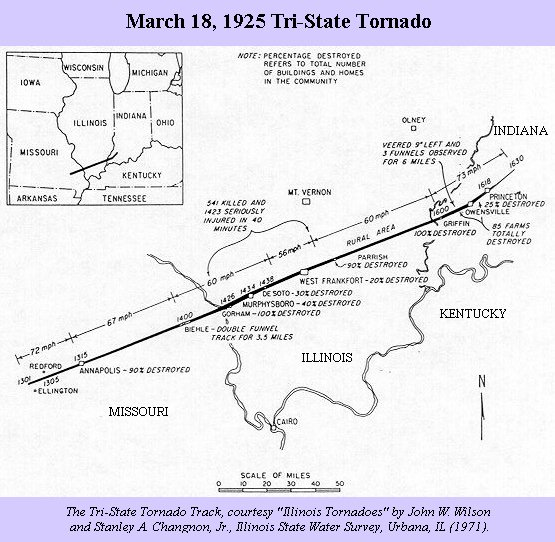 A map of the track of the 219-mile, 3.5 hour Tri-State Tornado which killed 695 in Missouri, Illinois, and Indiana on 18 March 1925.